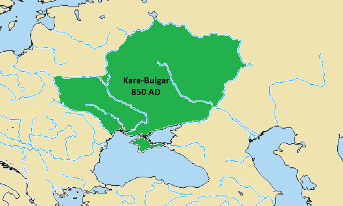 Kara-Bulgar